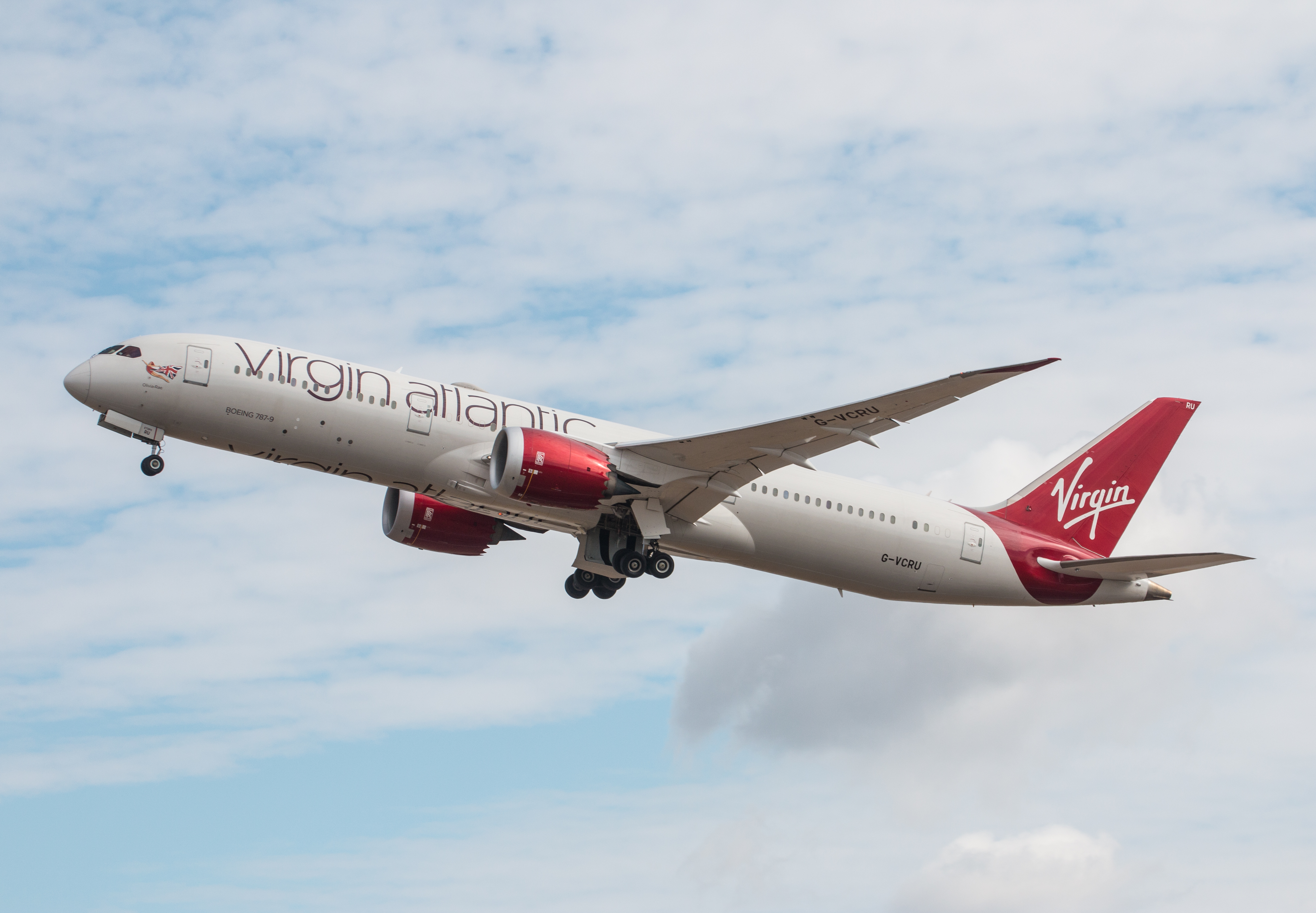 Heathrow Airport, London